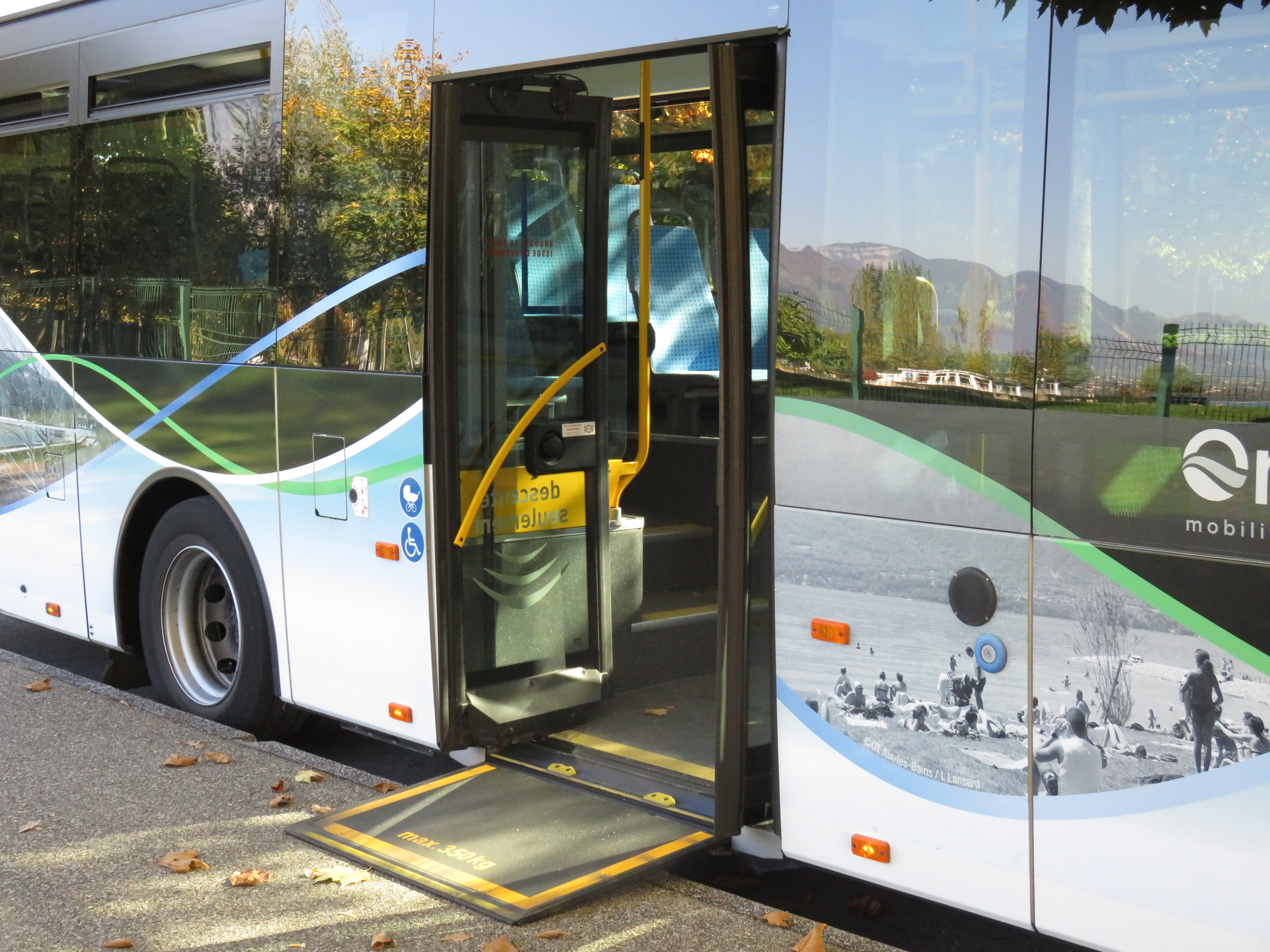 An Iveco Crossway LE (n°53 of the French agglomeration community Grand Lac) with the acces ramp for disabled out.